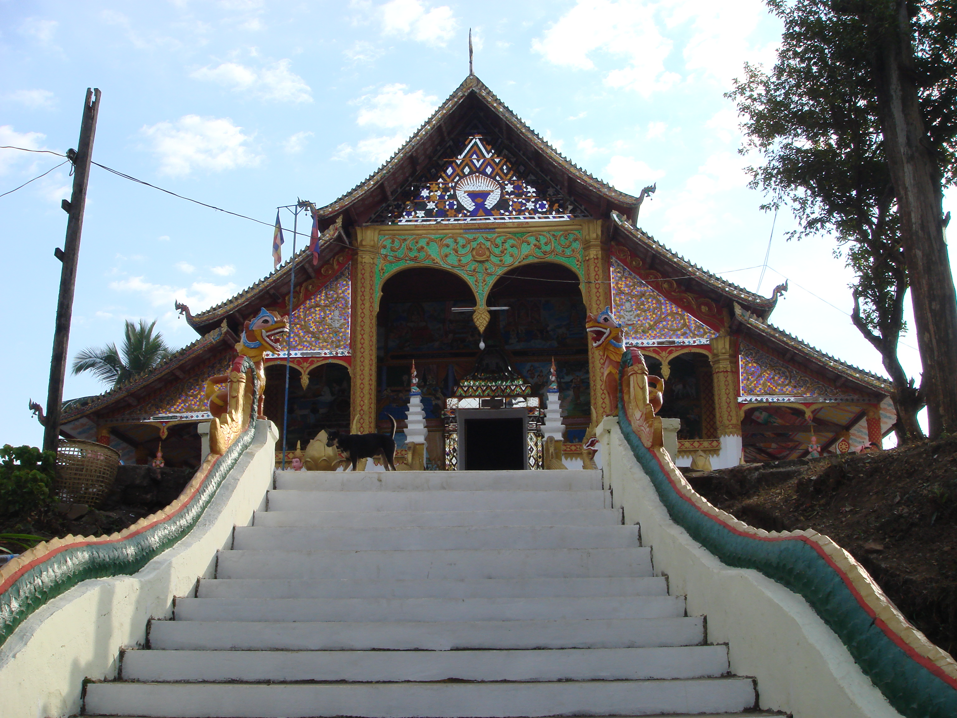 Wat Jom Khao Manilat in Huay Xai (Laos).